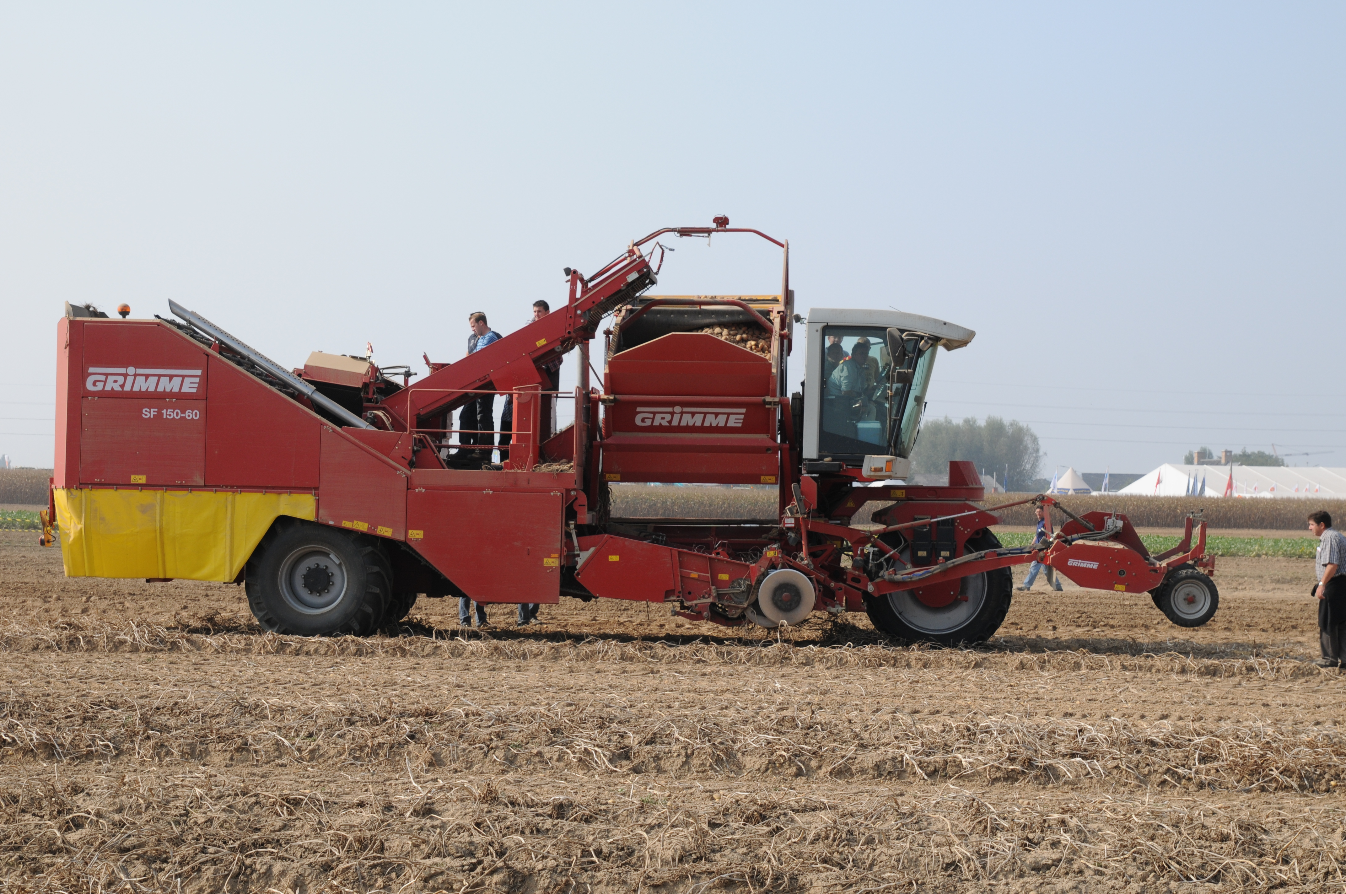 Grimme SF 150-60 potato harvester at Werktuigendagen 2009